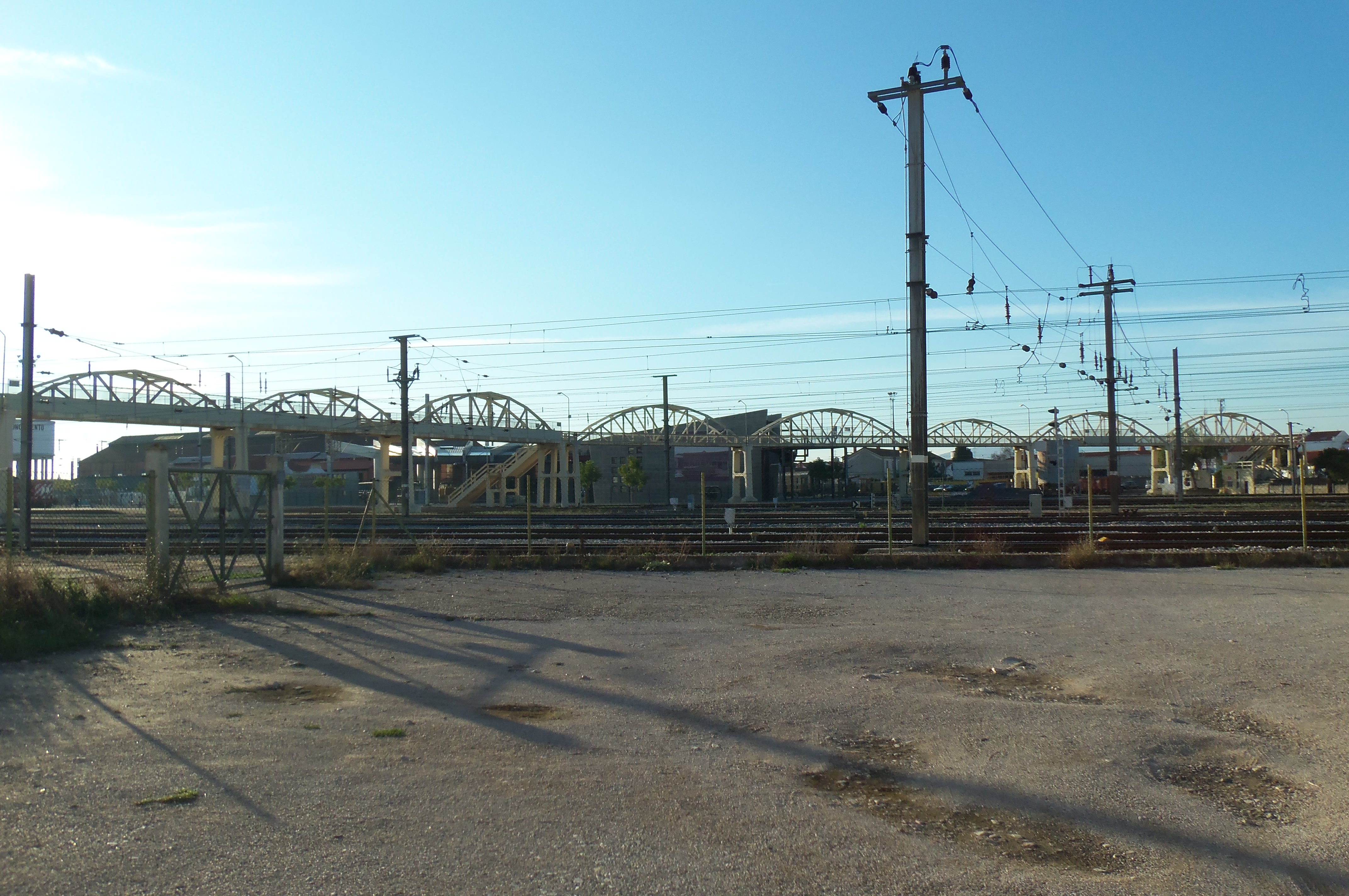 Pedestrian Bridge in Junction. Beneath the various lines on Entroncamento station.